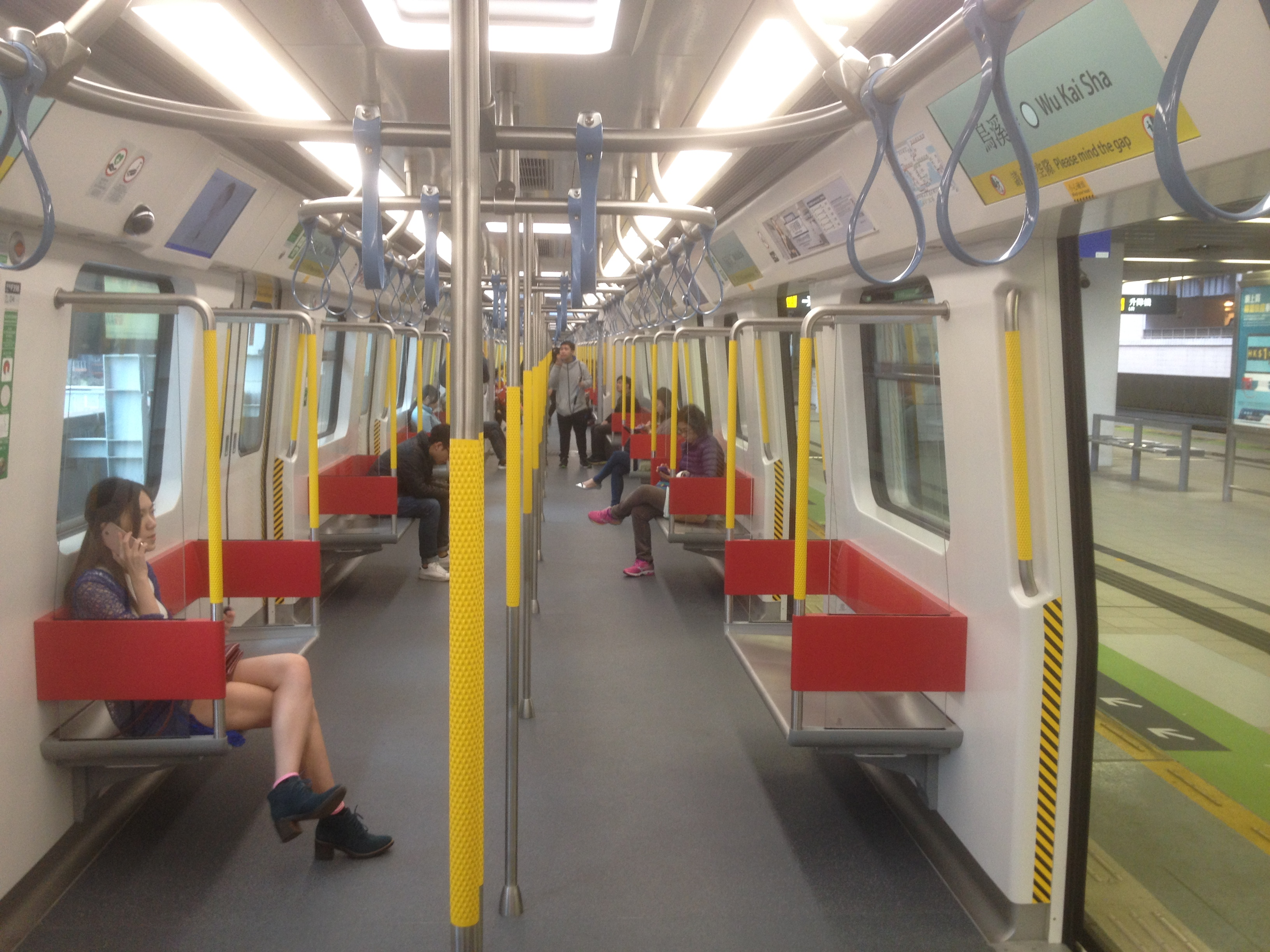 This photo is EWL C -Train compartment.